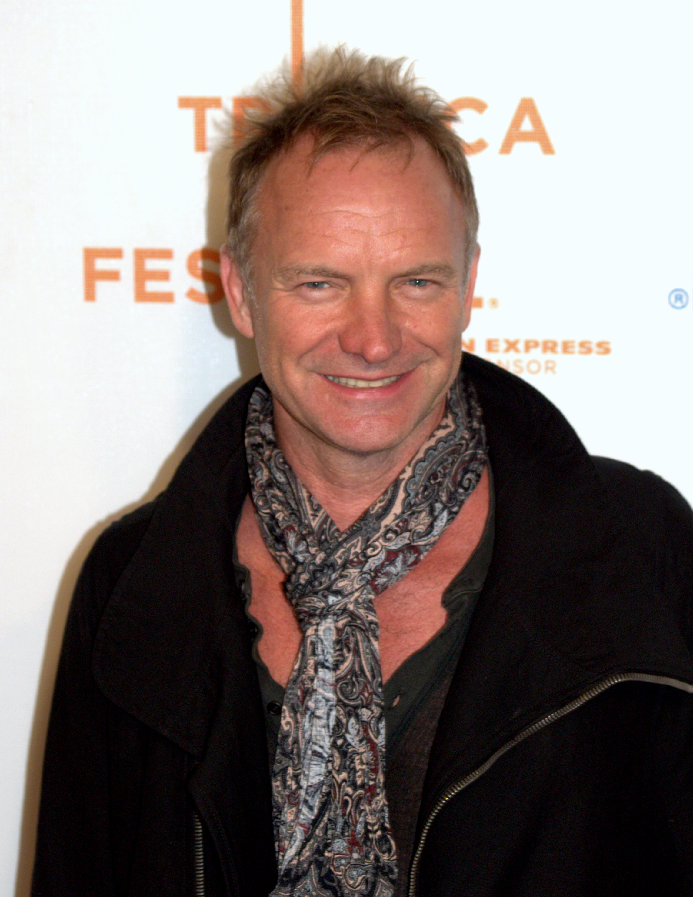 Sting at the 2009 Tribeca Film Festival for the premiere of Duncan Jones's film Moon. Photographer's blog post about this event.